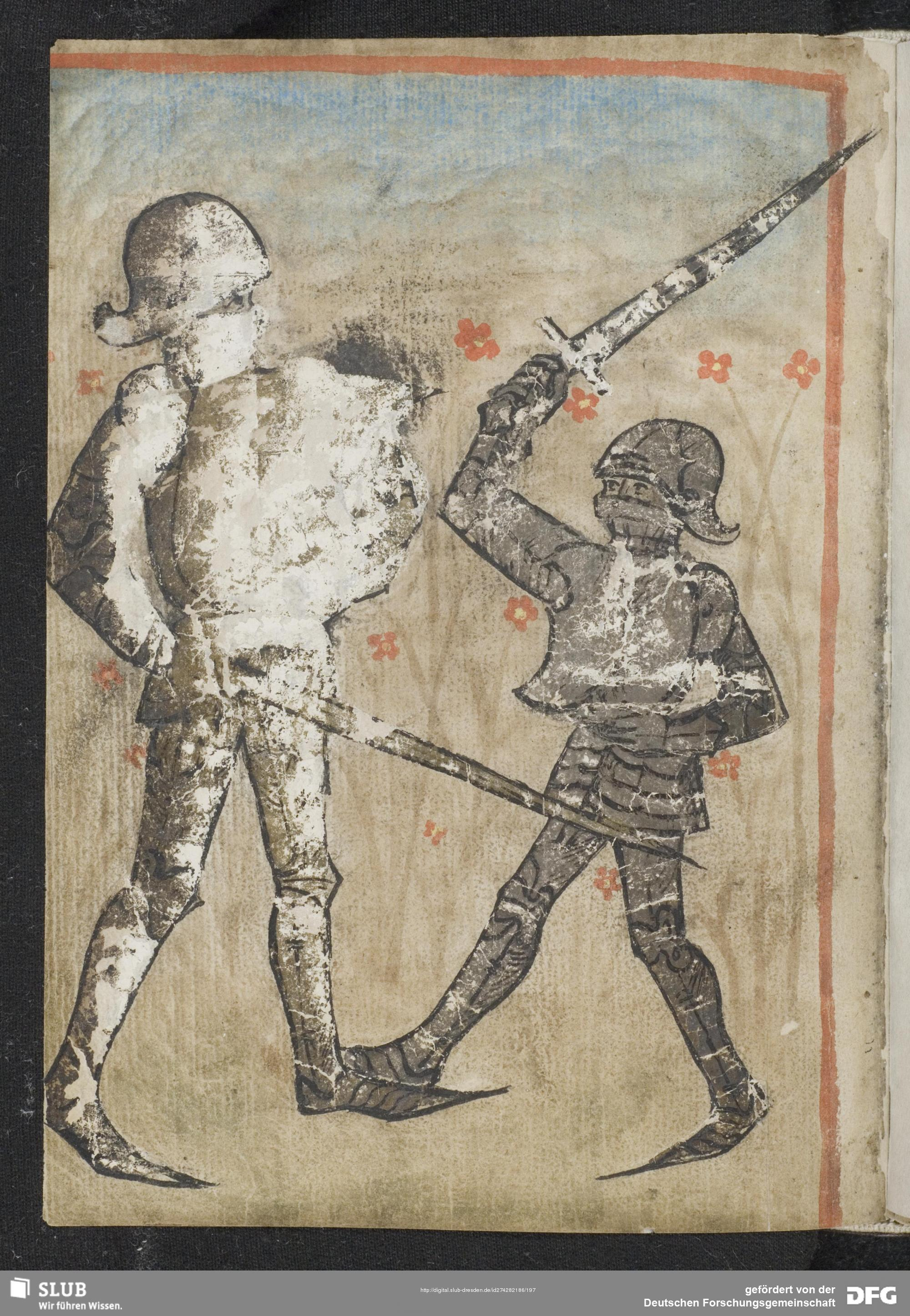 Dietrich kaempft gegen Ecke. SLUB Dresden, Mscr. Dresden M. 201 fol. 91v.